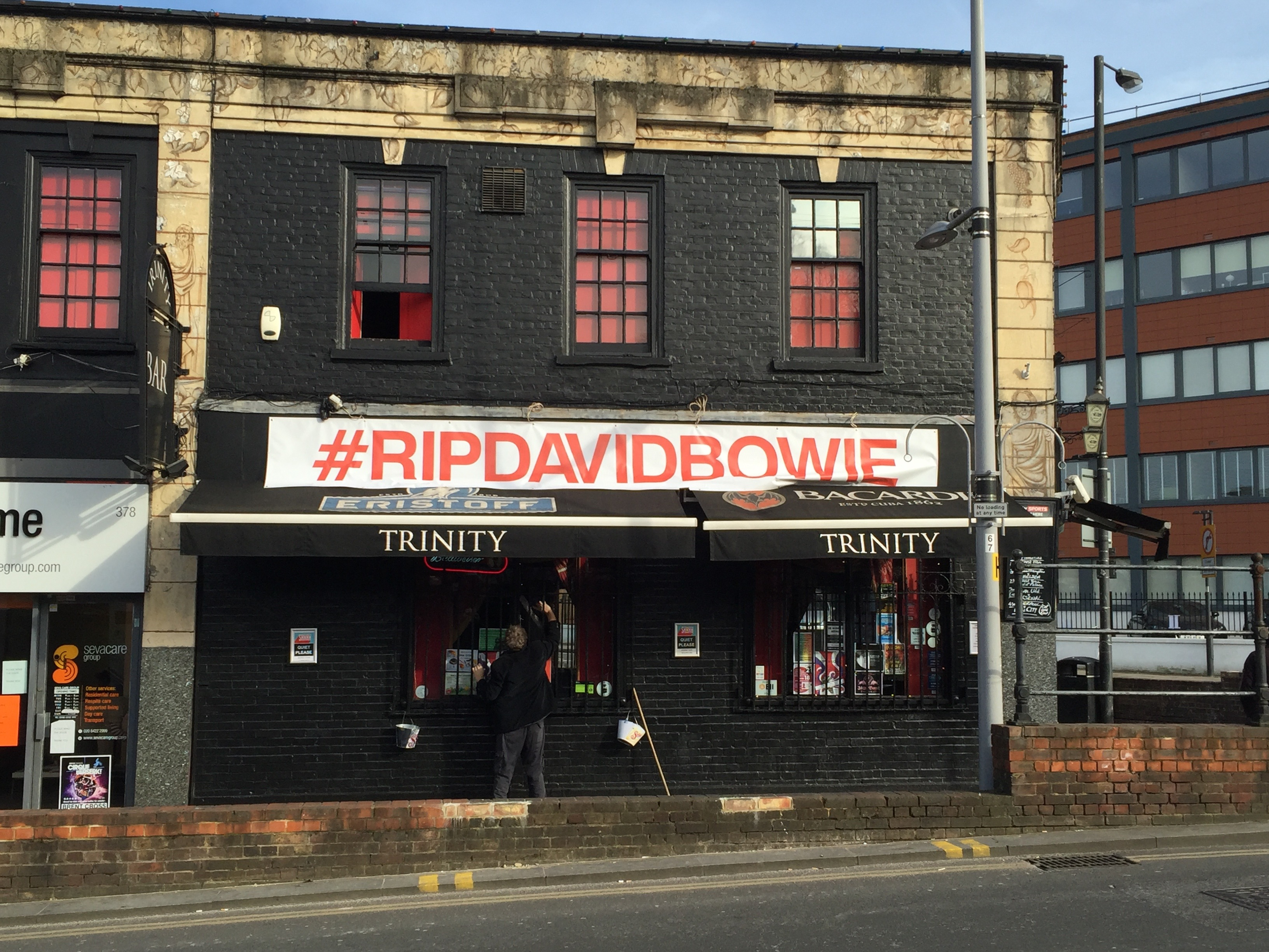 RIPDAVIDBOWIE on the Trinity Bar in Harrow, England. This bar on Station Road has been operational since c. 1992.